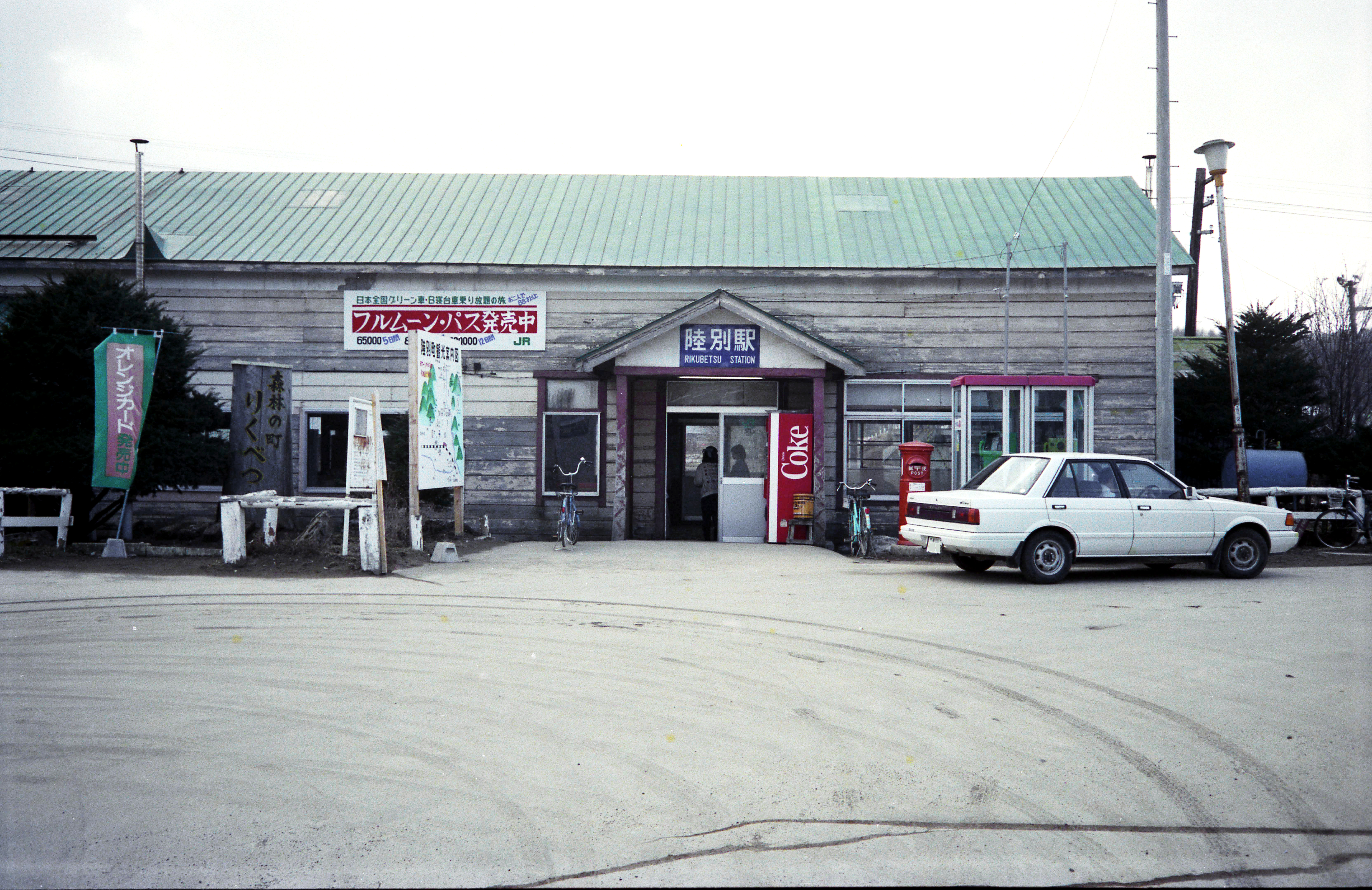 The old building of Rikubetsu Station on JR Hokkaido Chihoku Line (before transferred to Hokkaido Chihokukogen Railway)